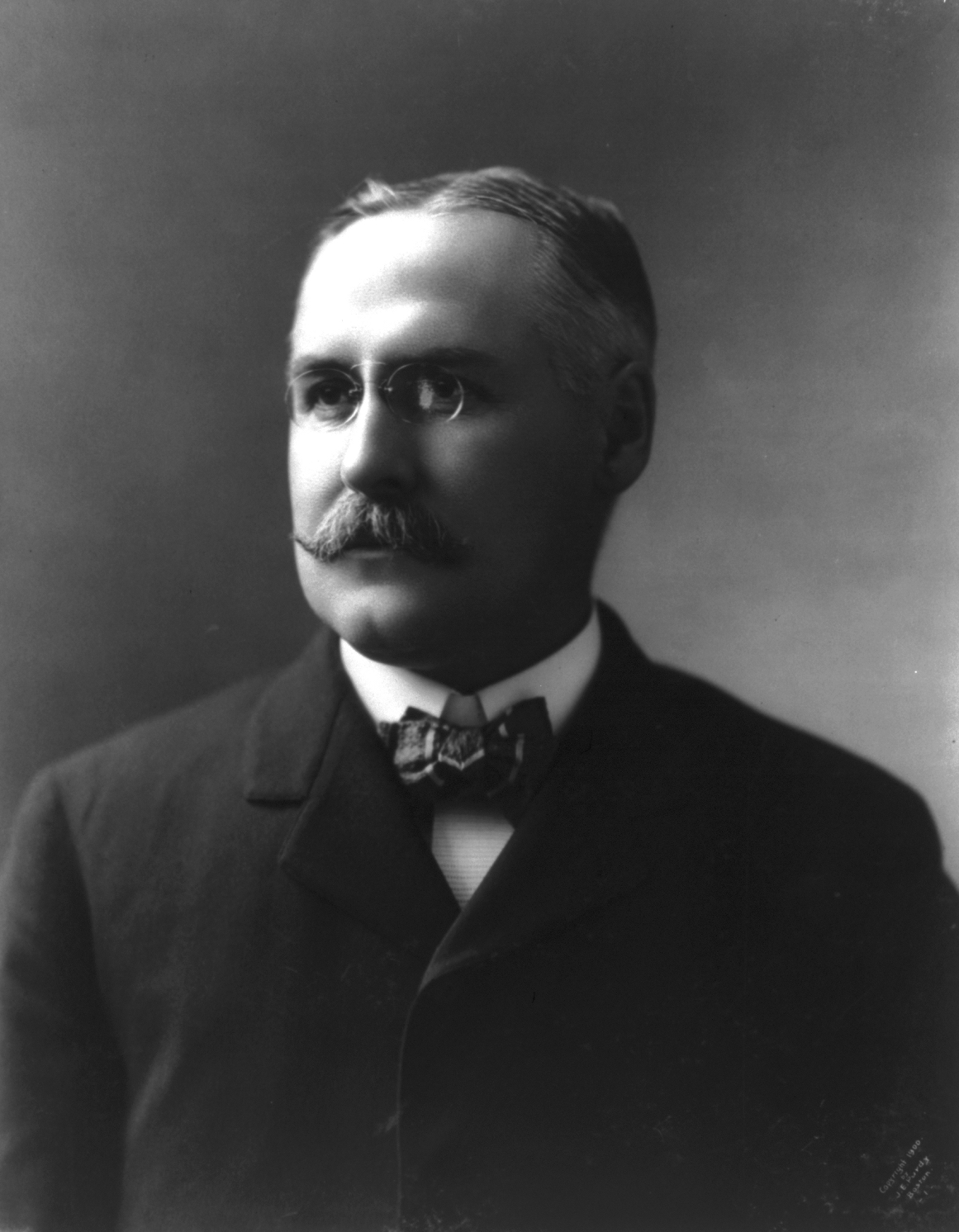 John Fremont Hill, 1855-1912, head and shoulders